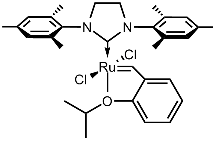 2nd generation Hoveyda-Grubbs catalyst